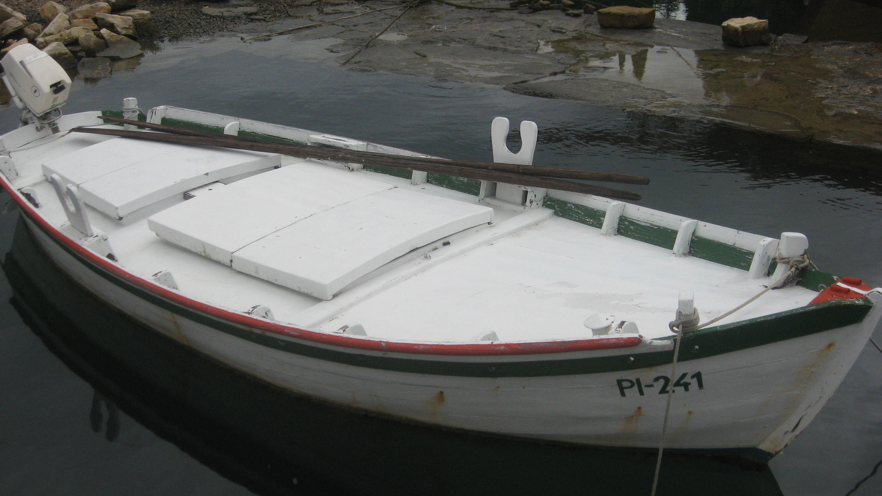 Batana traditional fisherman boat, Slovenia